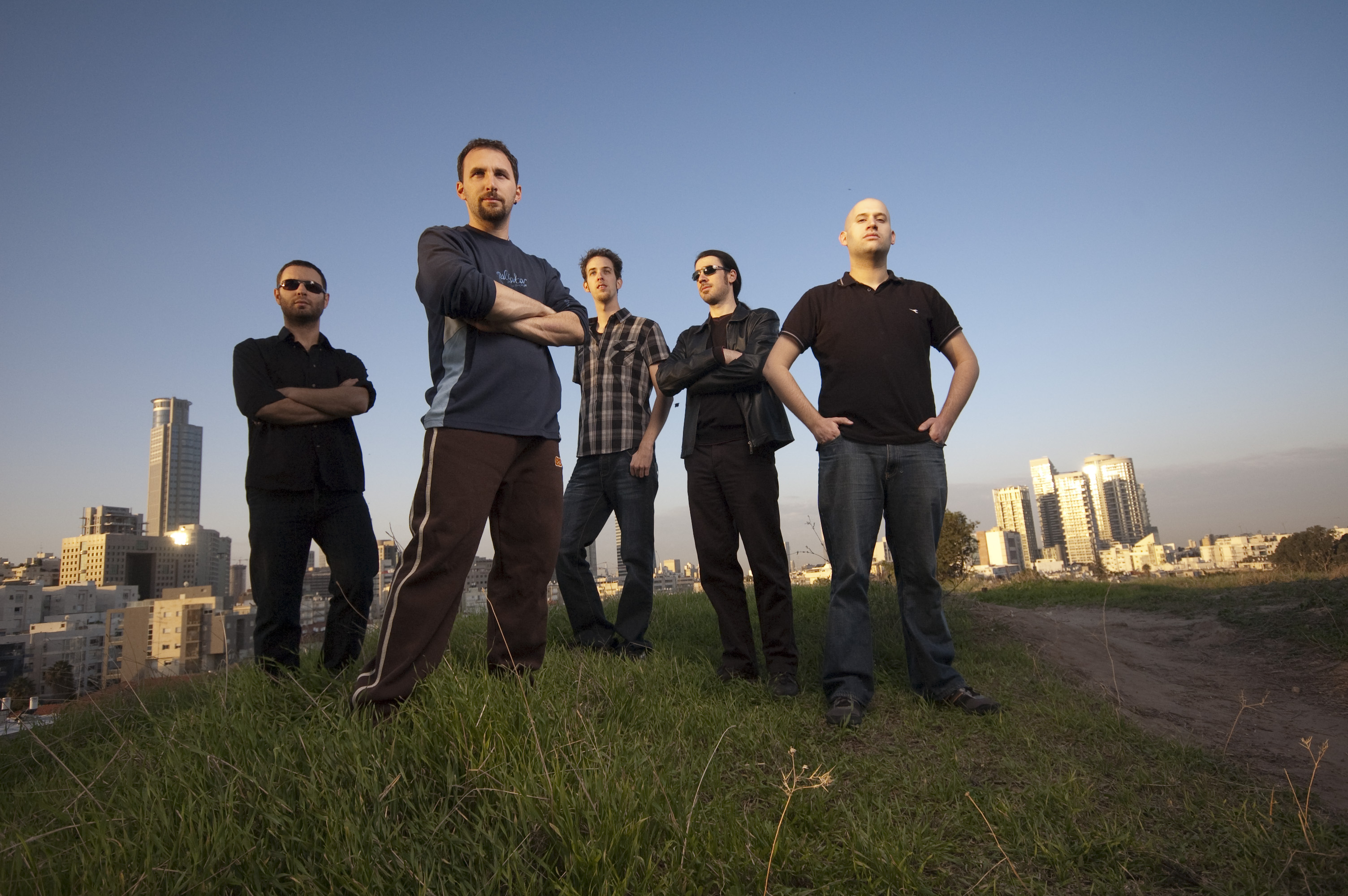 Promotional photo shoot of the band Solstice Coil